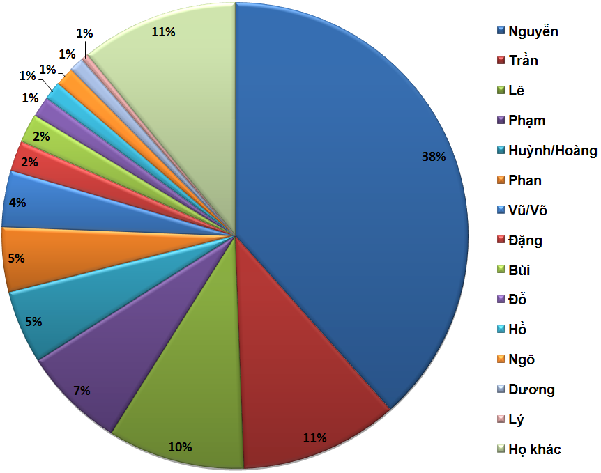 Distribution of Vietnamese family names